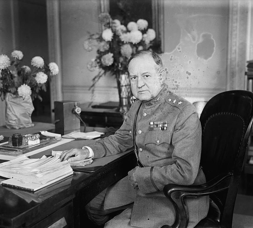 Maj. Gen. John A. Hull, Judge Adv. Gen. National Photo Company Collection, Library of Congress